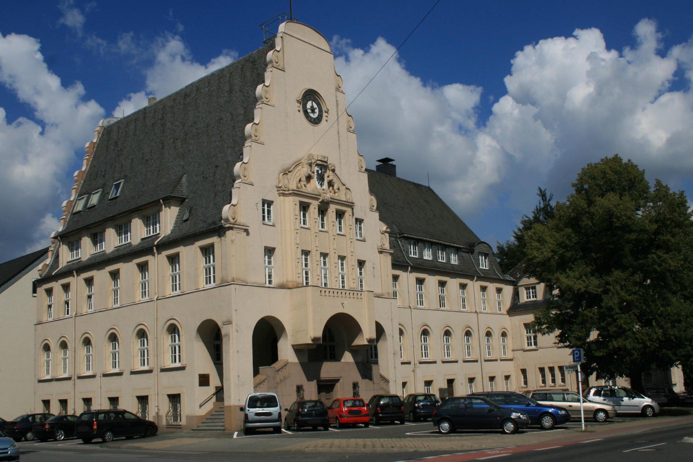 Cultural heritage monument No. N 005 in Mönchengladbach